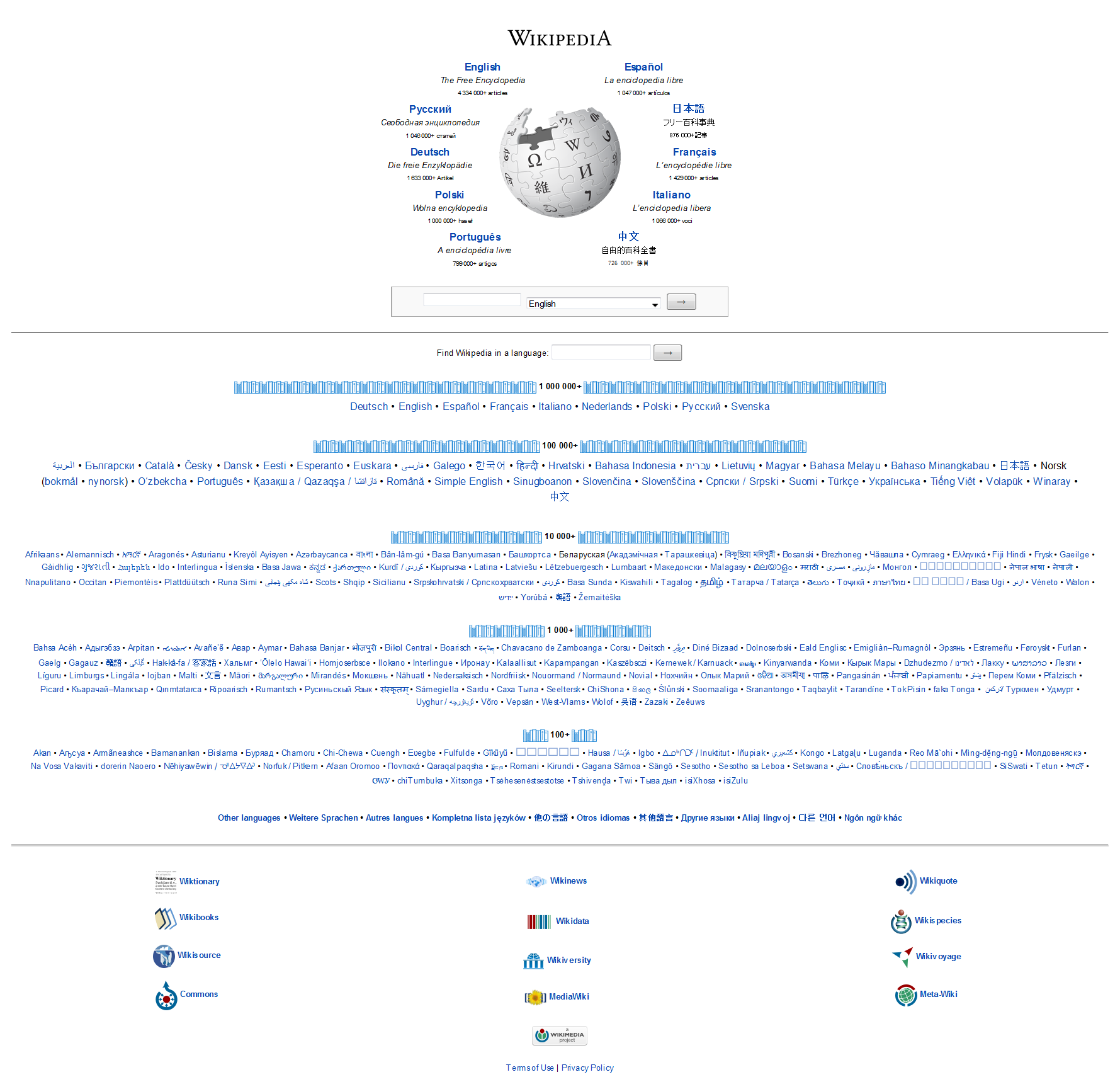 Screen photo of Wikipedia's multilingual portal at